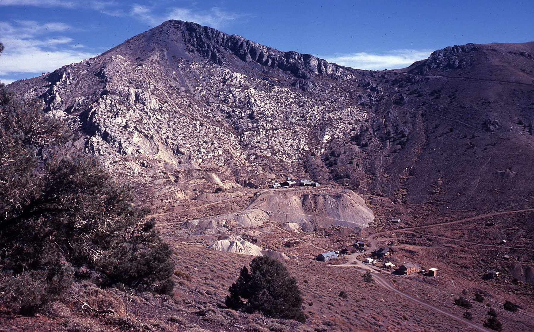 Cerro Gordo Mines and ghost town. In the Inyo Mountains — Inyo County, eastern California.